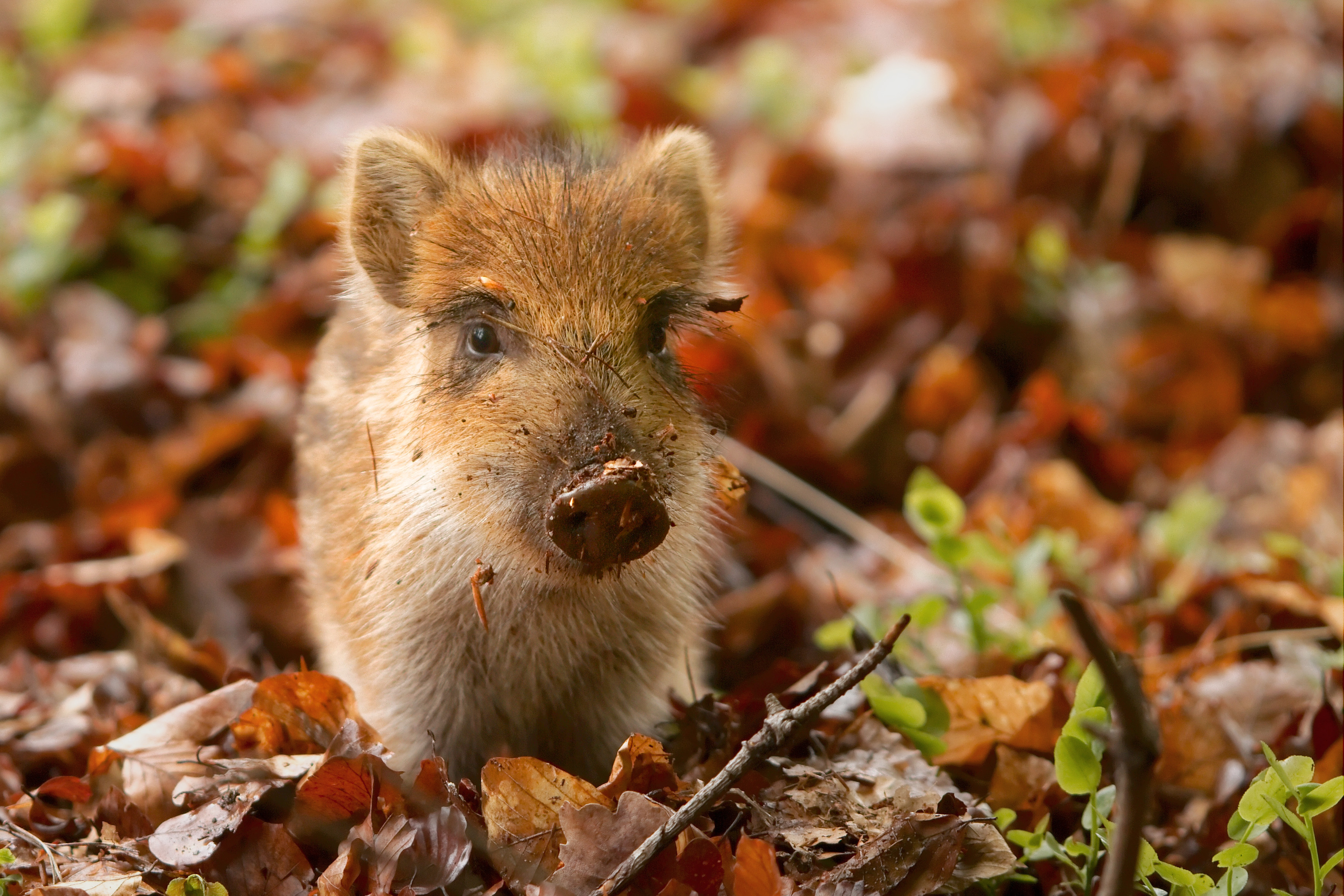 A baby Wild Boar (Sus scrofa) in a wildlife park in the Netherlands